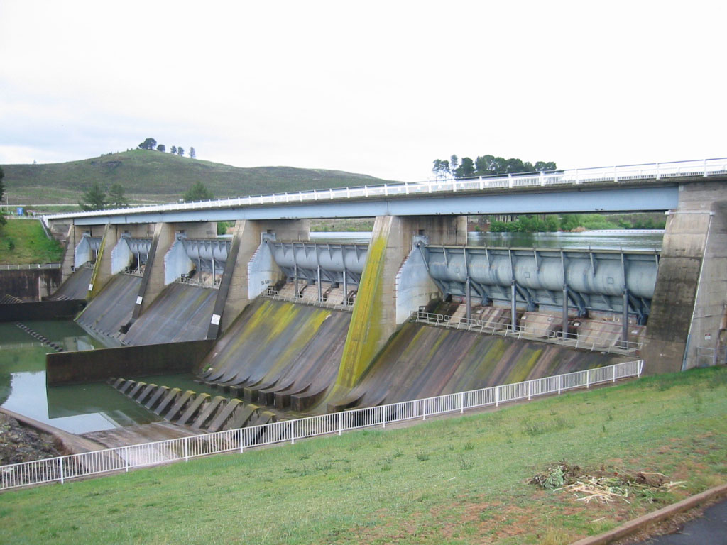 Scrivener Dam, Canberra